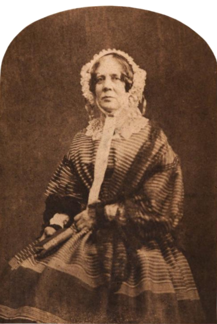 Portrait of children's books authors Anne Wright